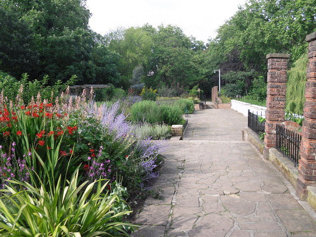 Ada Salter Rose Garden